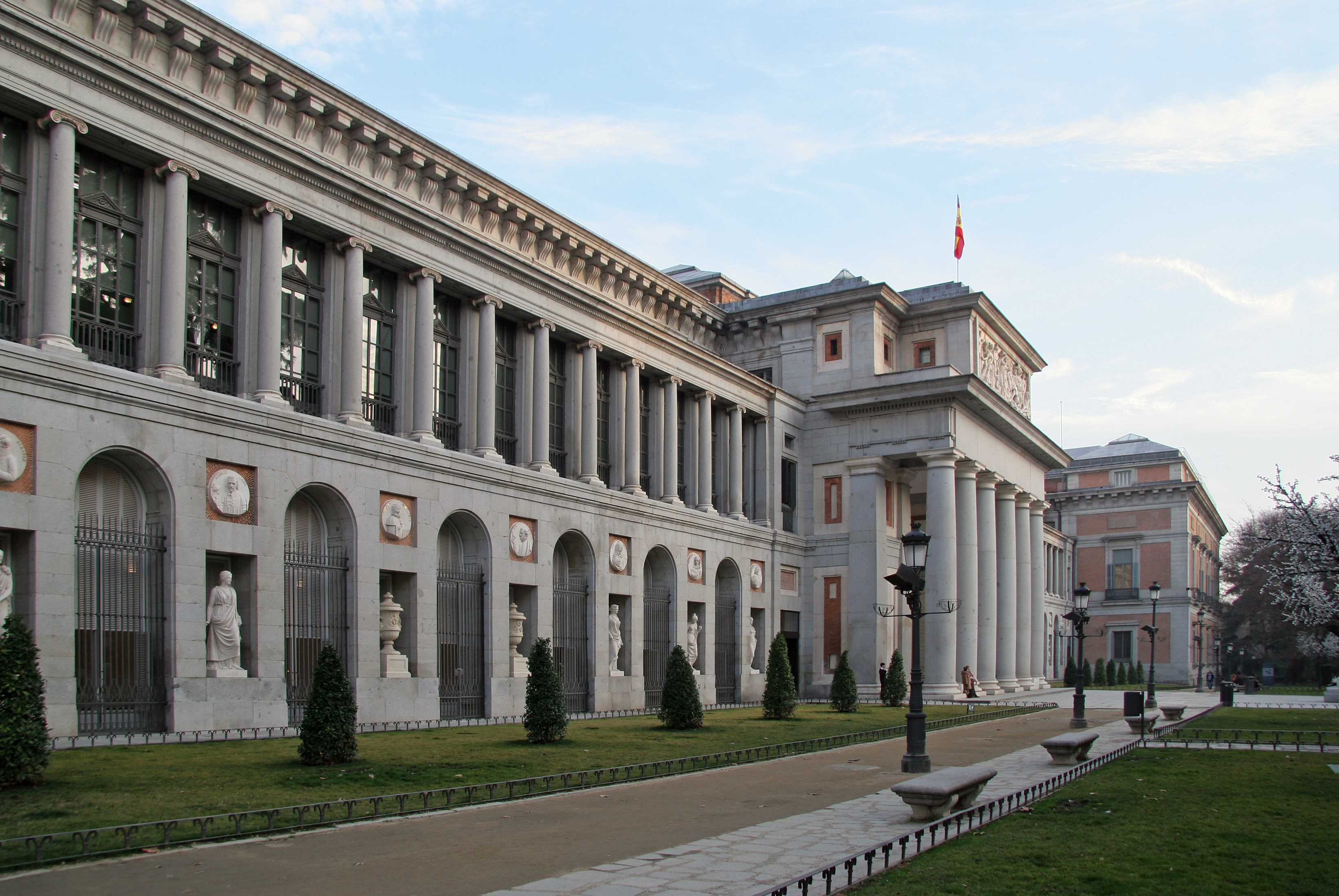 West façade of Prado Museum in Madrid (Spain).